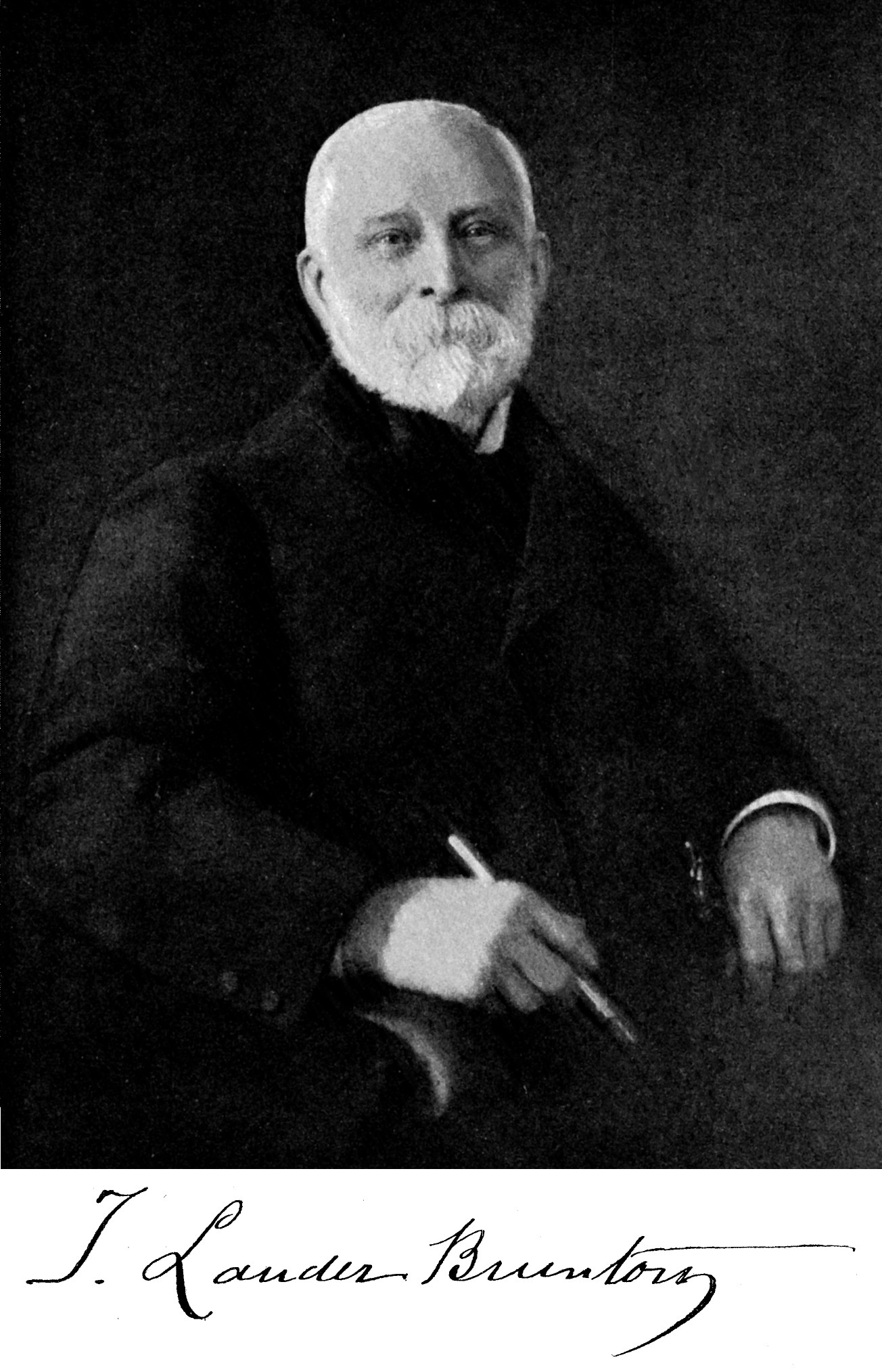 Brunton's obituary published in 1917 in